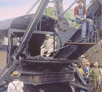 President Theodore Roosevelt 1906 at the controls of an excavating machine digging the Panama Canal.